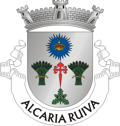 Crest of Alcaria Ruiva parish, Mértola municipality (Portugal)